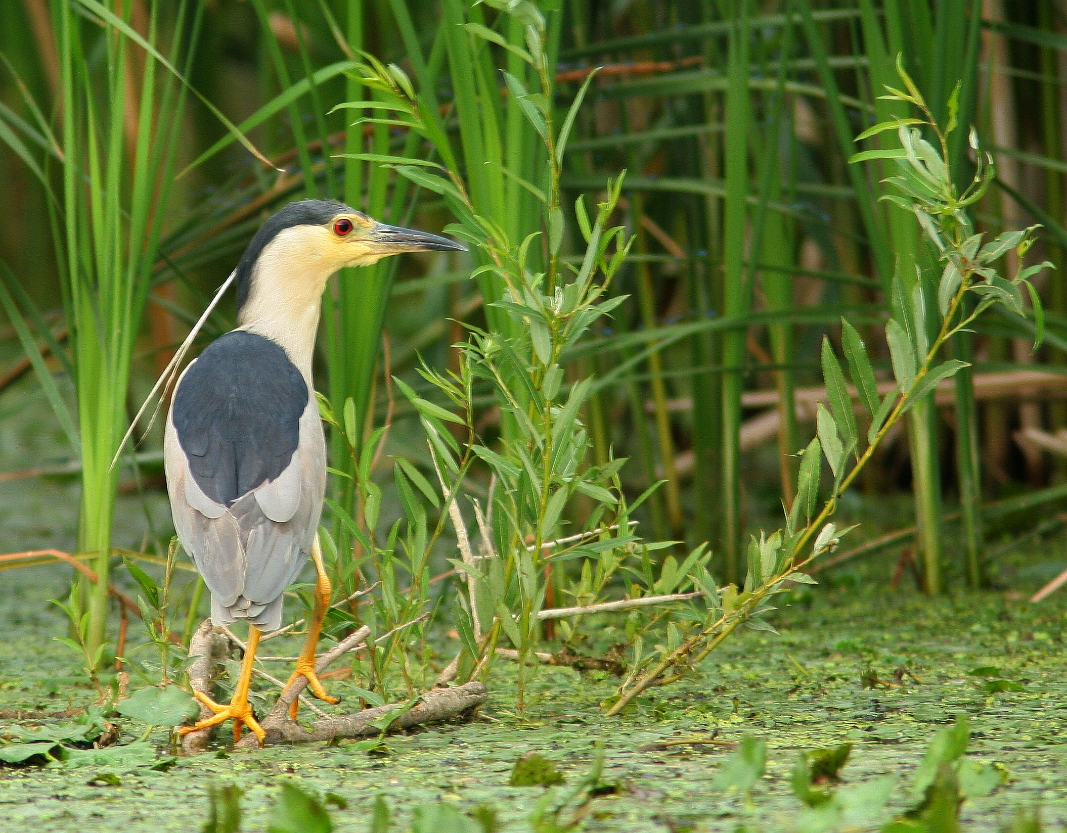 Black-crowned night heron, Danube Delta, Romania 2007